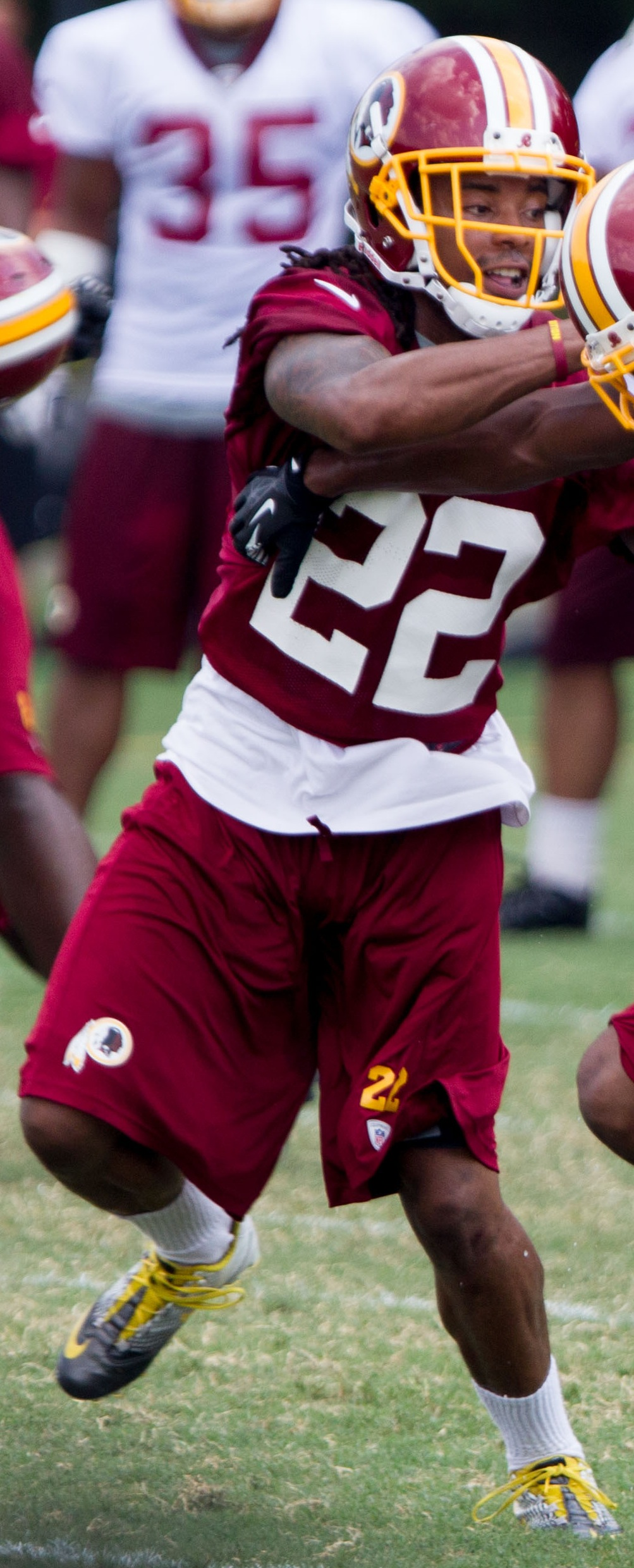 Kevin Barnes at Washington Redskins Training Camp August 2, 2012